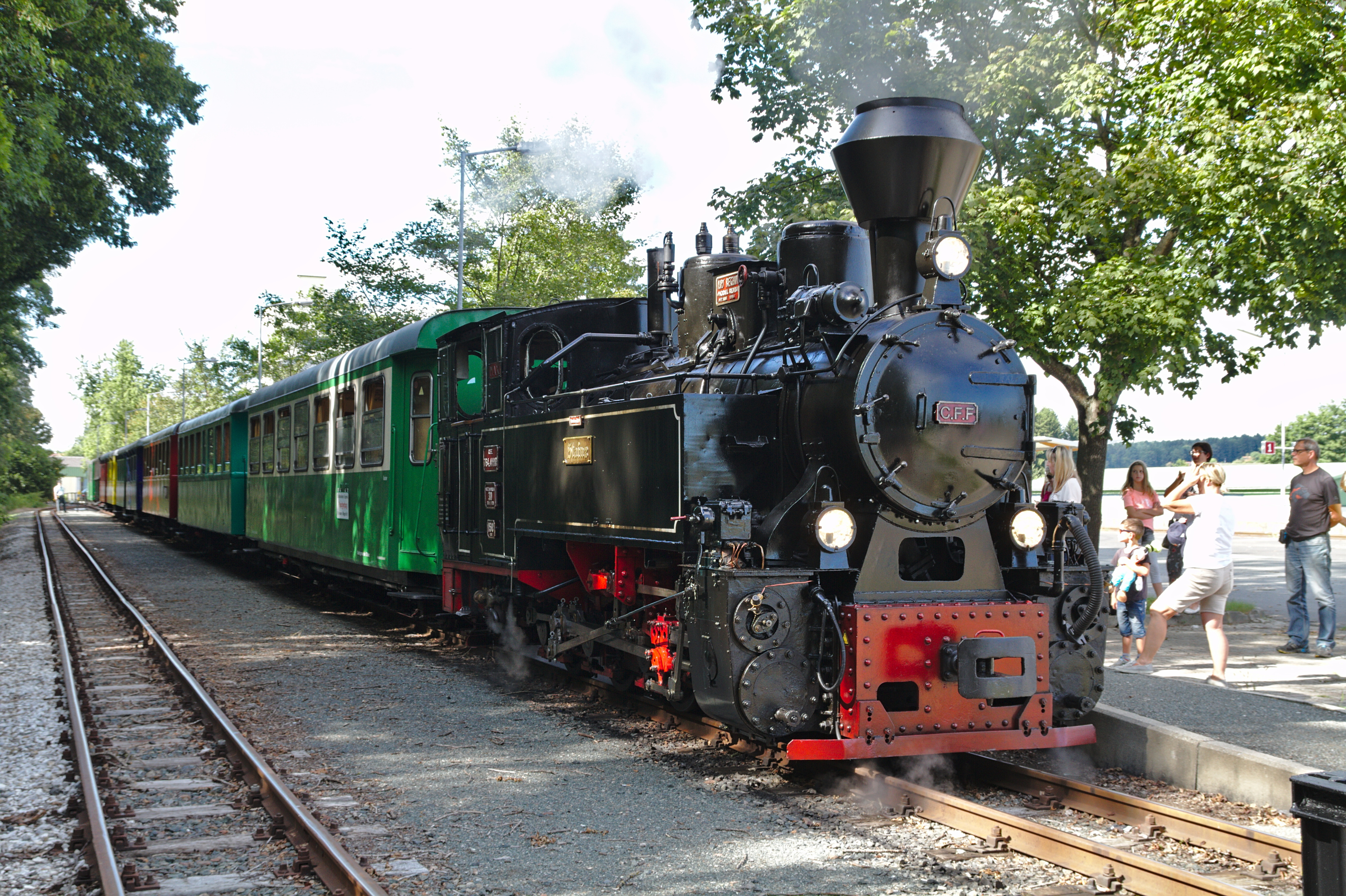 "Flascherlzug" with 764.411R at Preding-Wieselsdorf station, ready to depart for Stainz.